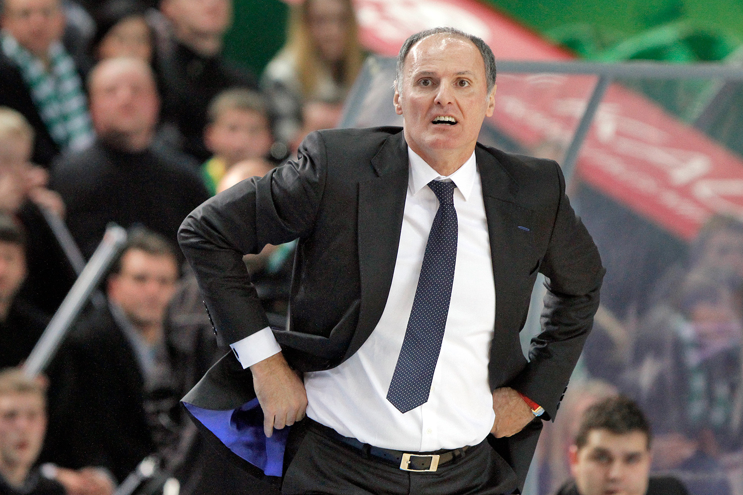 Basketball coach Dusko Ivanovic